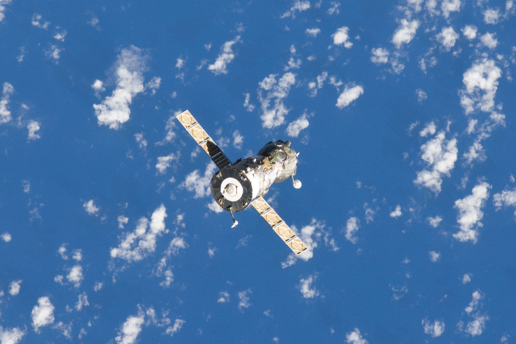 Backdropped against a mixture of blue sky and clouds, the Soyuz TMA-21 spacecraft departs from the International Space Station and heads toward a landing in a remote area outside the town of Zhezkazgan, Kazakhstan, on Sept. 16, 2011. NASA astronaut Ron Garan, flight engineer, along with Expedition 28 commander Andrey Borisenko and flight engineer Alexander Samokutyaev, both of the Russian Federal Space Agency, are returning from more than five months onboard the International Space Station where they served as members of the Expedition 27 and 28 crews.